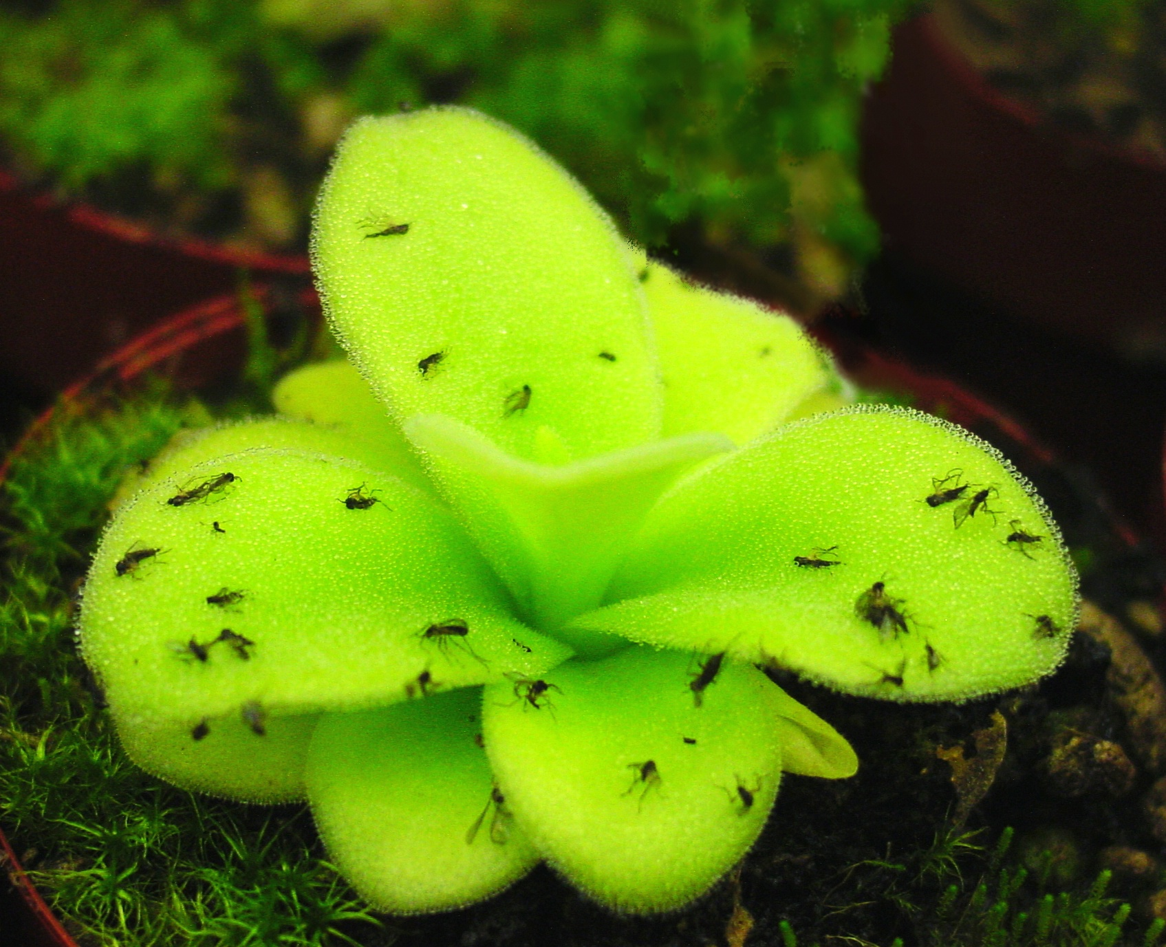 Description: Pinguicula gigantea with prey Photo by: Noah Elhardt